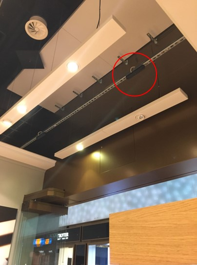 A people counter seamlessly installed in a retail store that is indistinguishable from the store environment